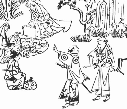 Christian's ghost from the Shokoku Hyakumonogatari